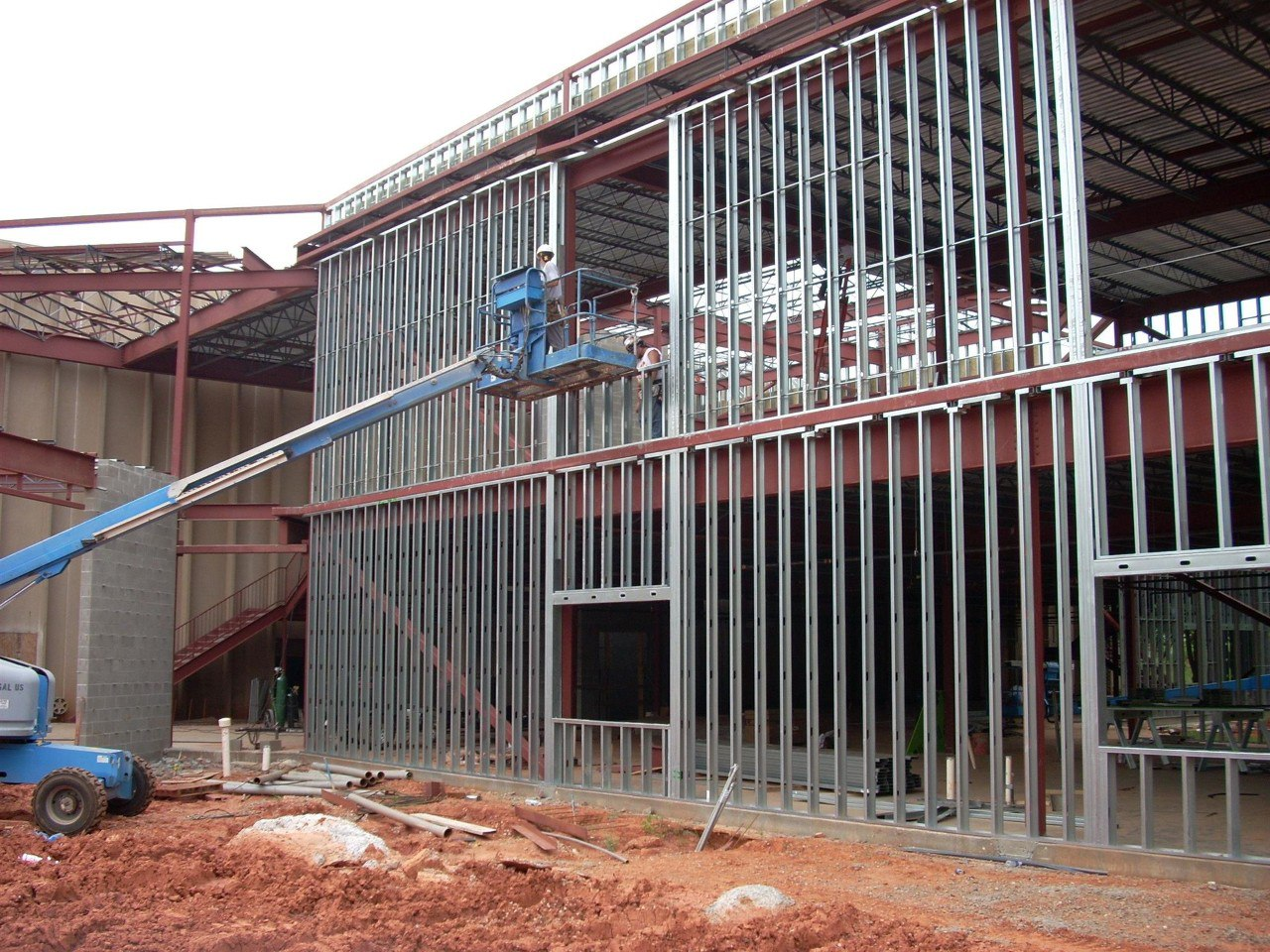 LSF Exterior Wall Framing